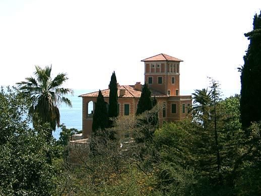 View of the Villa Orengo gardens and Mediterranean Sea coast at Hanbury Botanical Gardens - at Ventimiglia, Liguria - Italy.